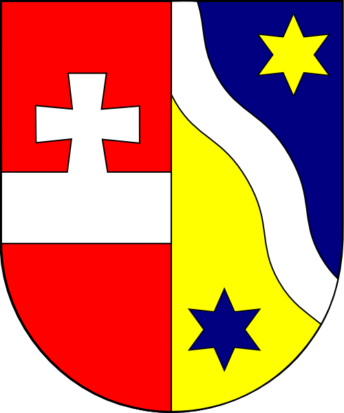 Coat of arms (shield only) of Joseph cardinal Rauscher, bishop of Seckau, Austria (1849 - 1853), archbishop of Vienna (1853 - 1875). Version used in Vienna.